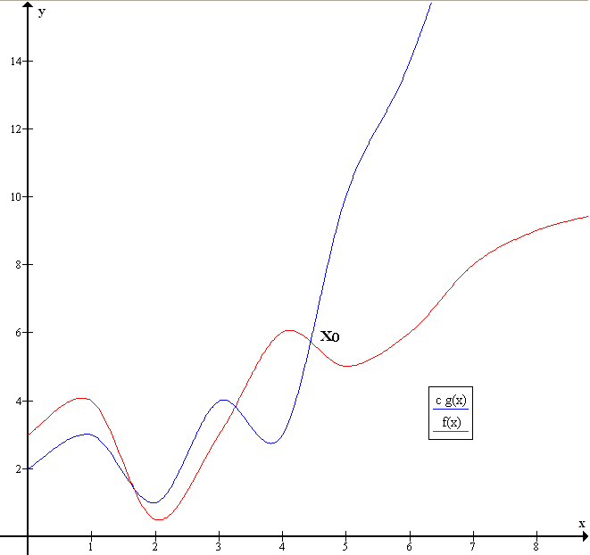 Example of Big O Notation, f(x) ∈ O(g(x))